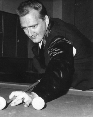 Austrian carom billiards player